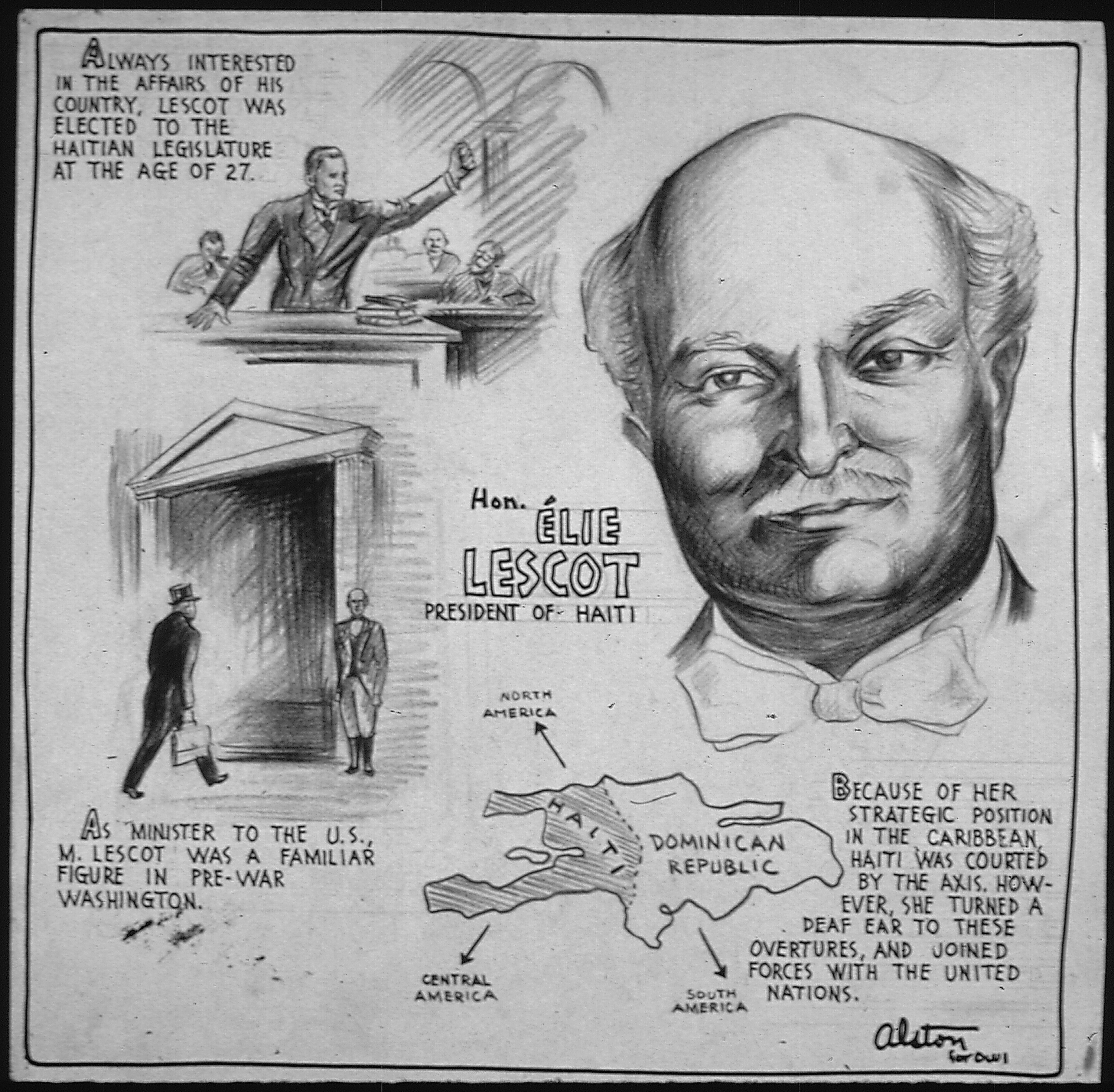 Scope and content: Honorable Elie Lescot - with biographical paragraphs.